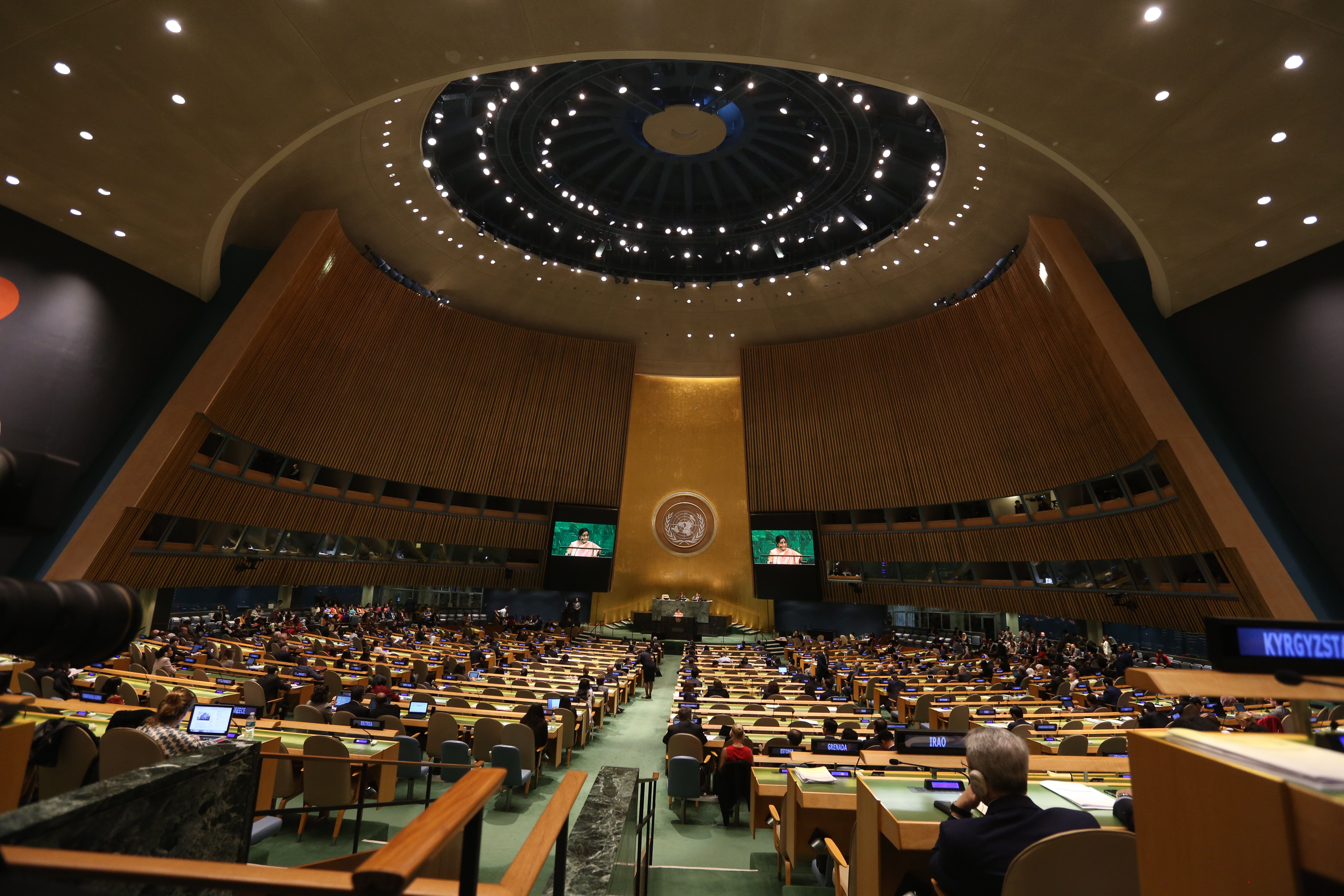 Sushma Swaraj Speaking at the United Nations 73rd General Assembly 2018 (UN Headquarters, General Assembly Hall, New York)